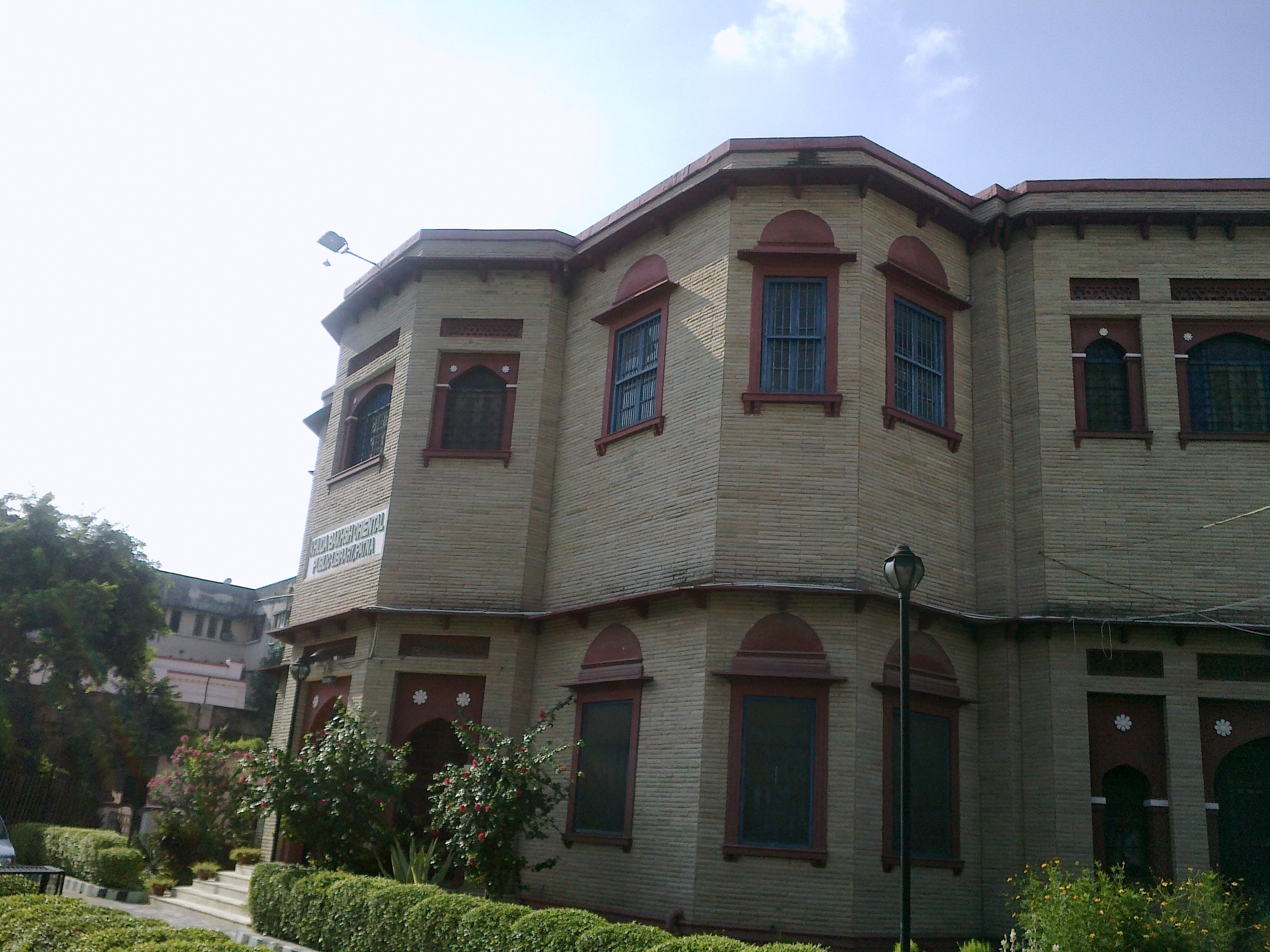 Khuda Baksh Oriental Library, Patna